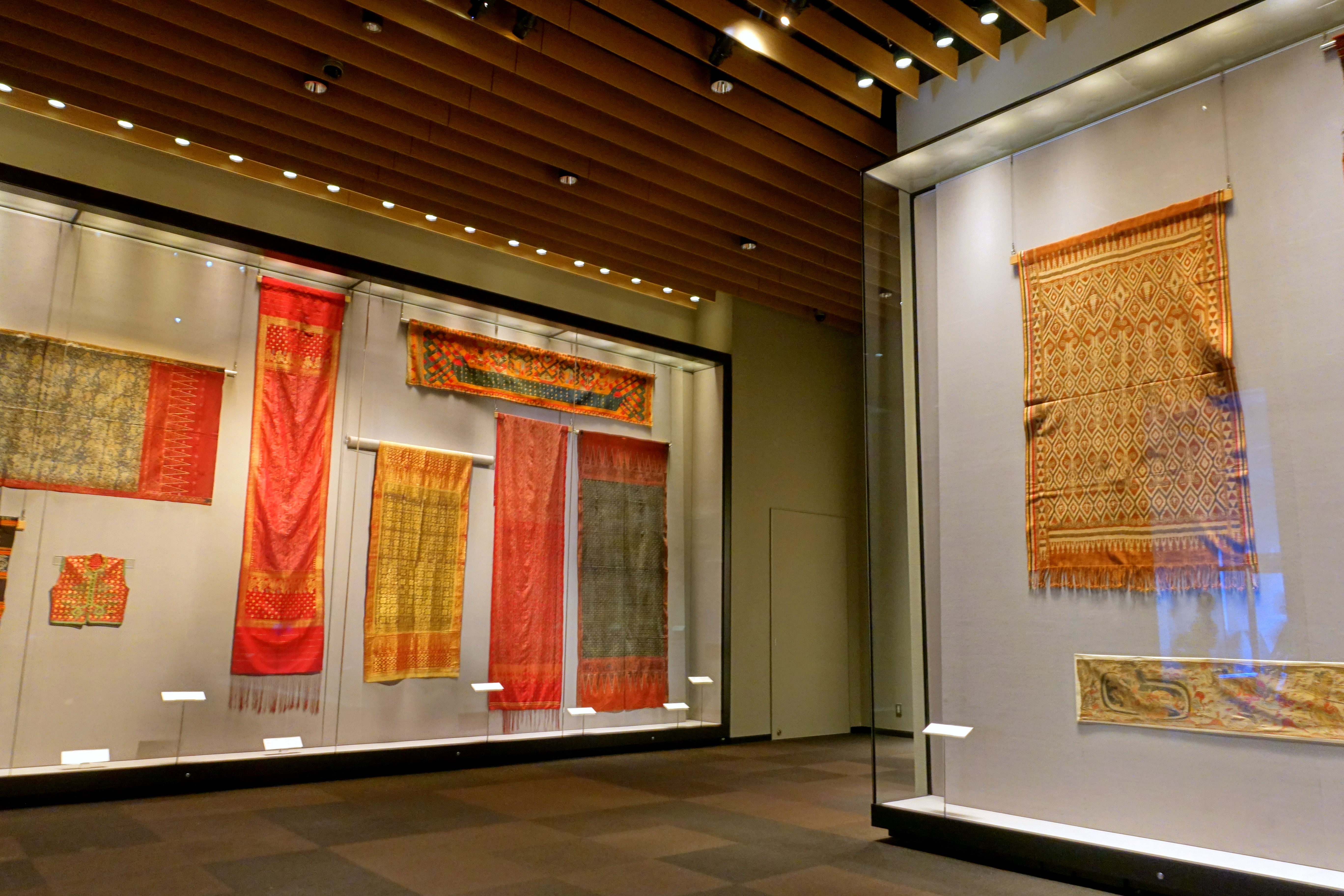 Exhibit in the Tokyo National Museum - Tokyo, Japan.